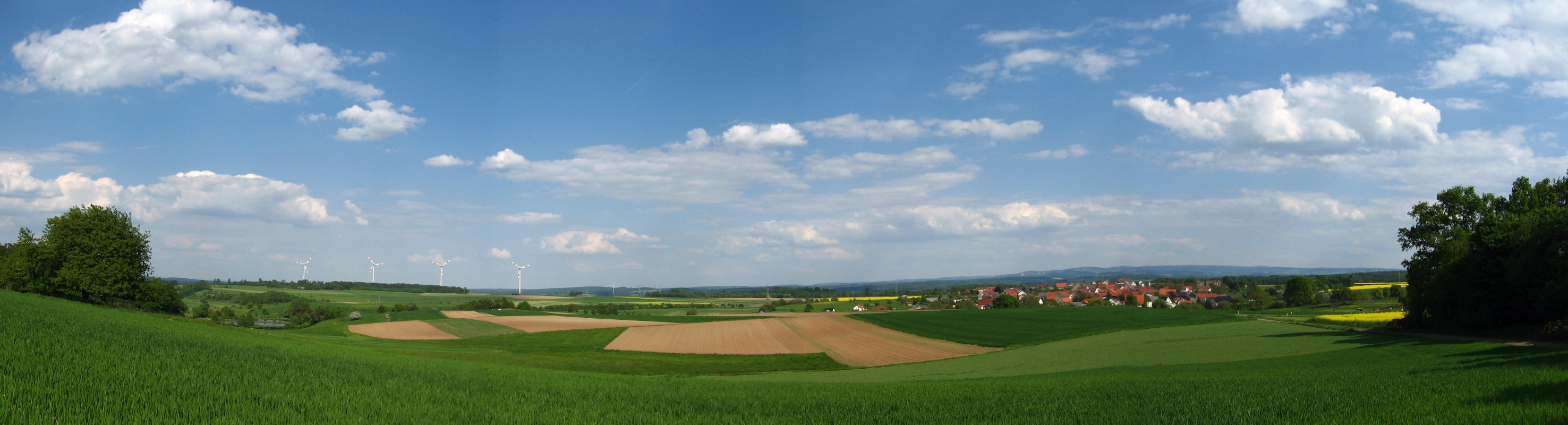 landscape in Germany / Central Hesse